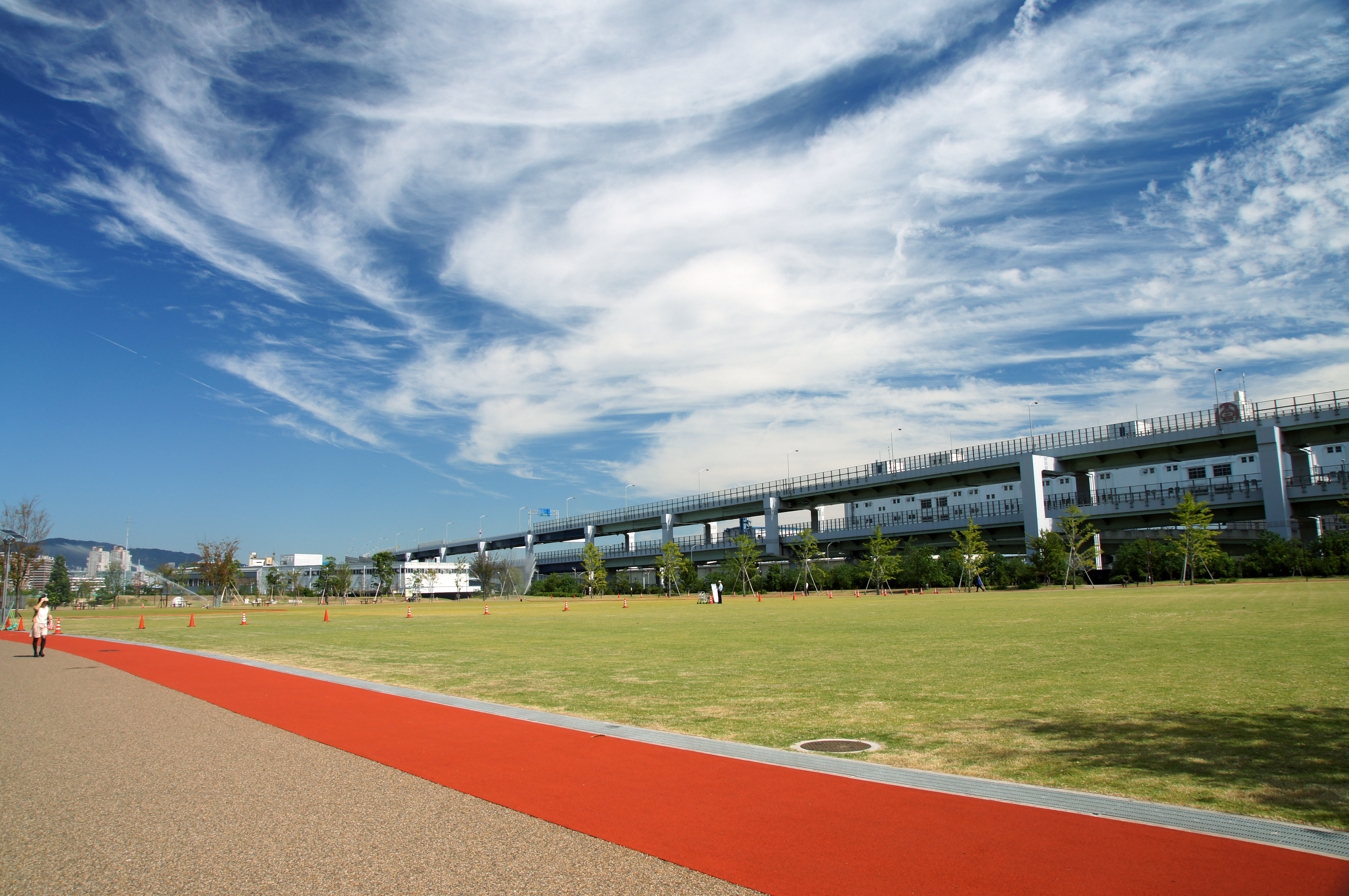 Minato-no-mori Park in Kobe, Hyogo prefecture, Japan